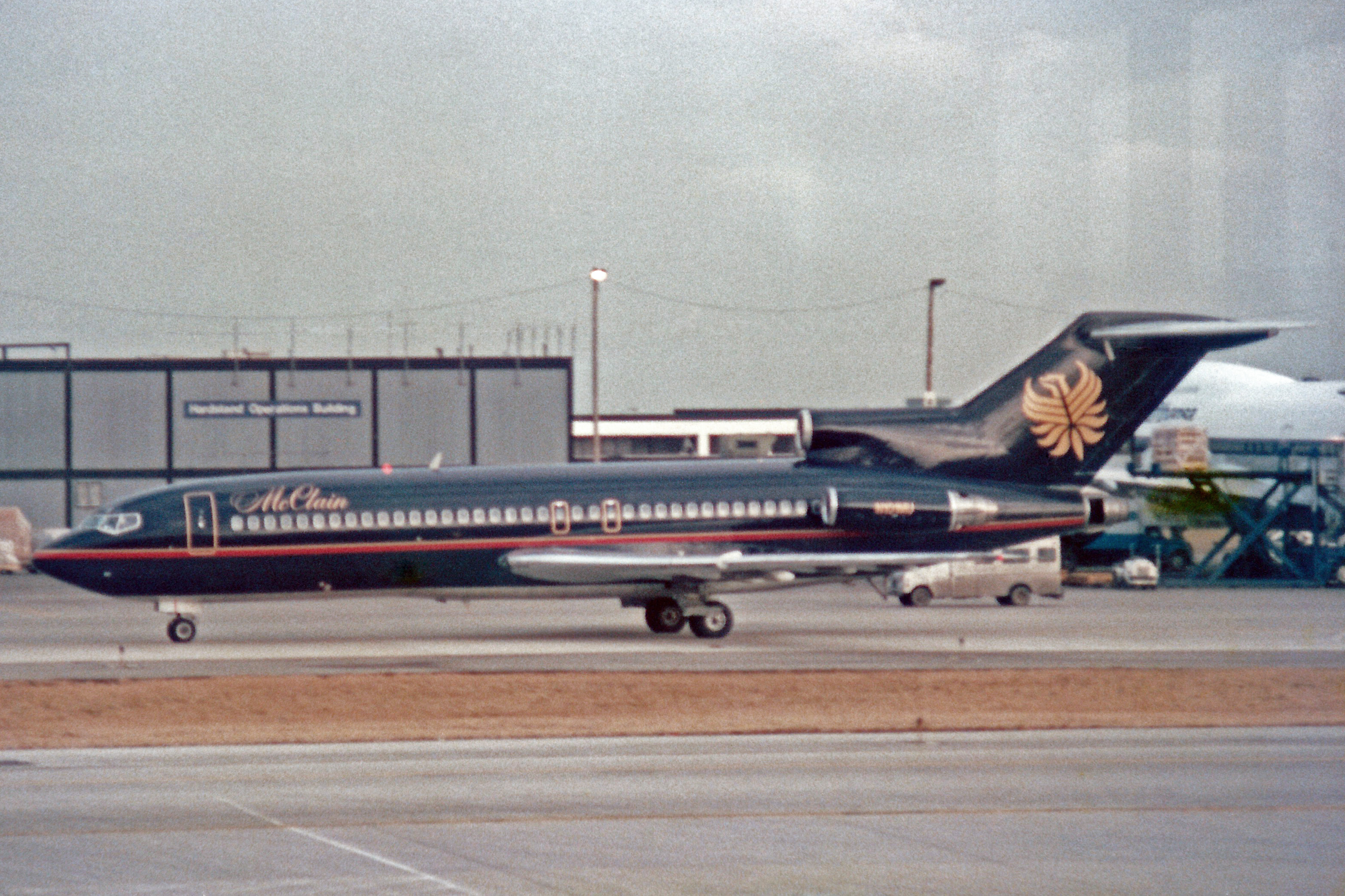 Replacing an earlier scanned photo with a better version. My apologies for any reflections on these photo's, I wasn't able to get any closer to the windows. McClain Airlines were a Phoenix (PHX) based airline operating early B727's in an all First Class 80 seat config. Their intention was to operate scheduled charter services between Los Angeles and Chicago. They never really got started and ceased operations in Sep-87.